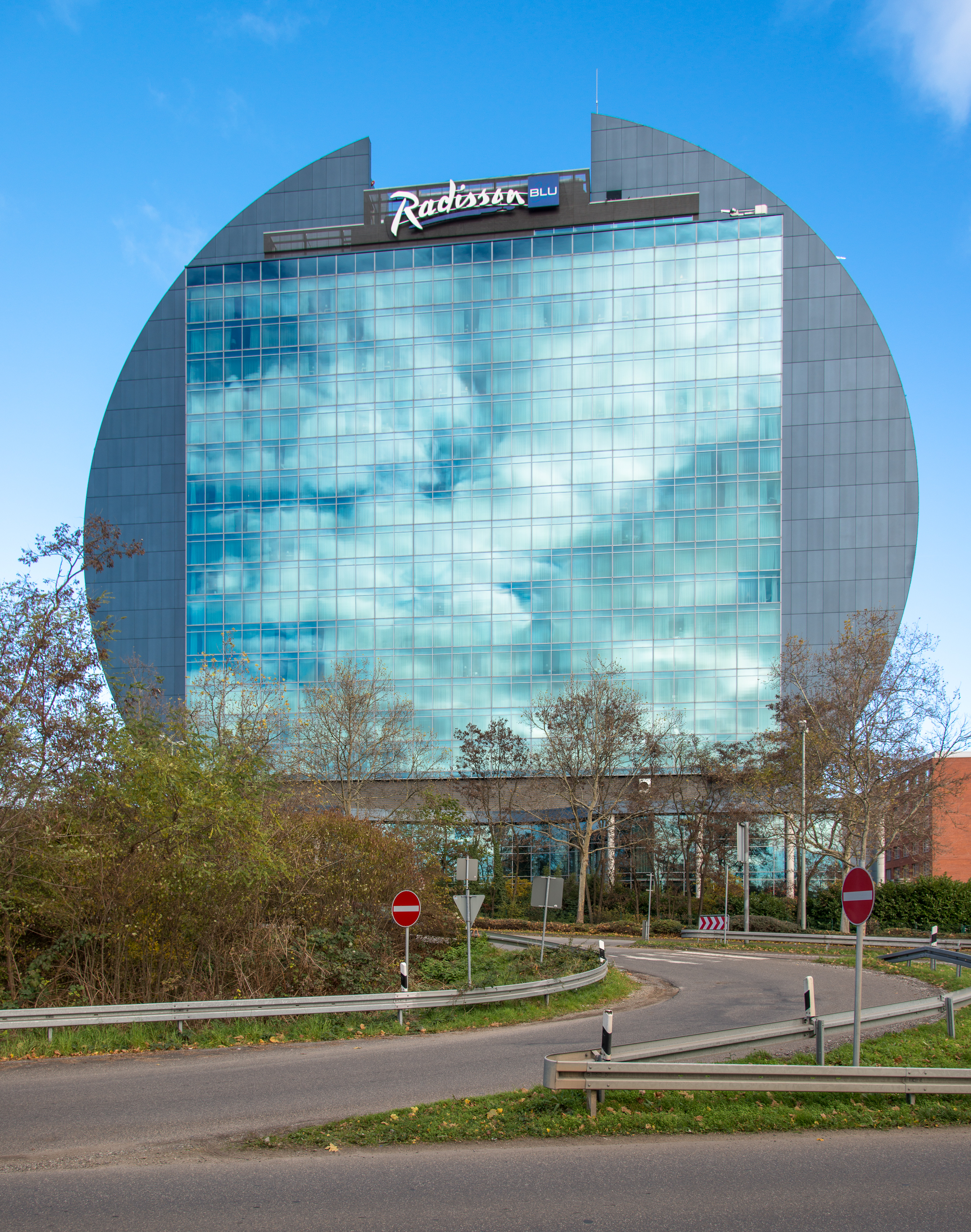 Frankfurt am Main, Radisson Blu Hotel (former Blue Heaven) tower as seen from South-West.